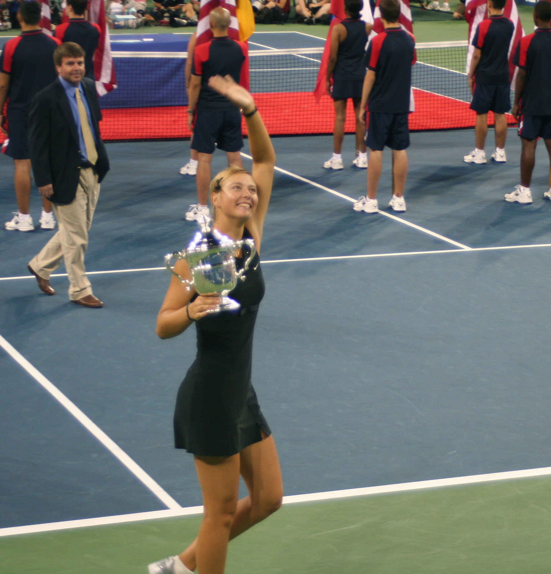 Maria Sharapova wins the US Open. New York, 2006